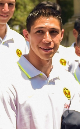 Hugo González Durán